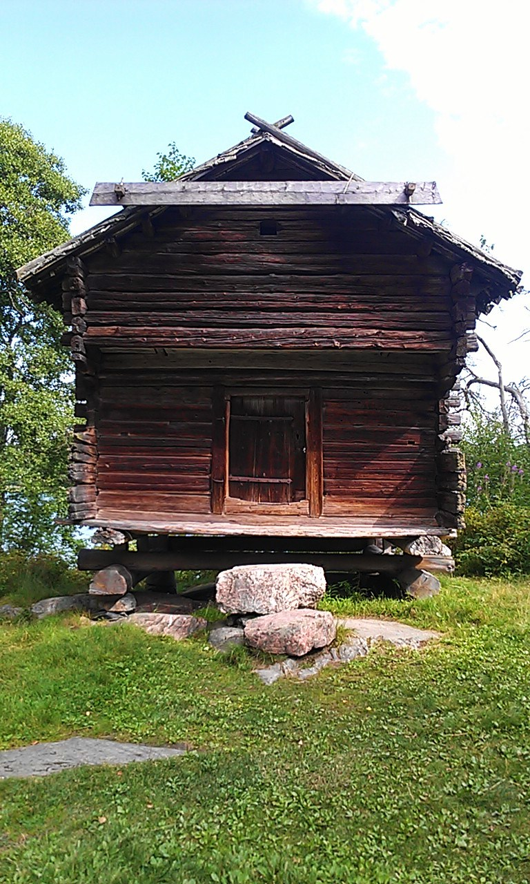 The Granary at the open air museum in Seurasaari, Finland. The Gramary is built in the North-Ostrobothnian style, and has the dates 1698 and 1723 marked over the door.